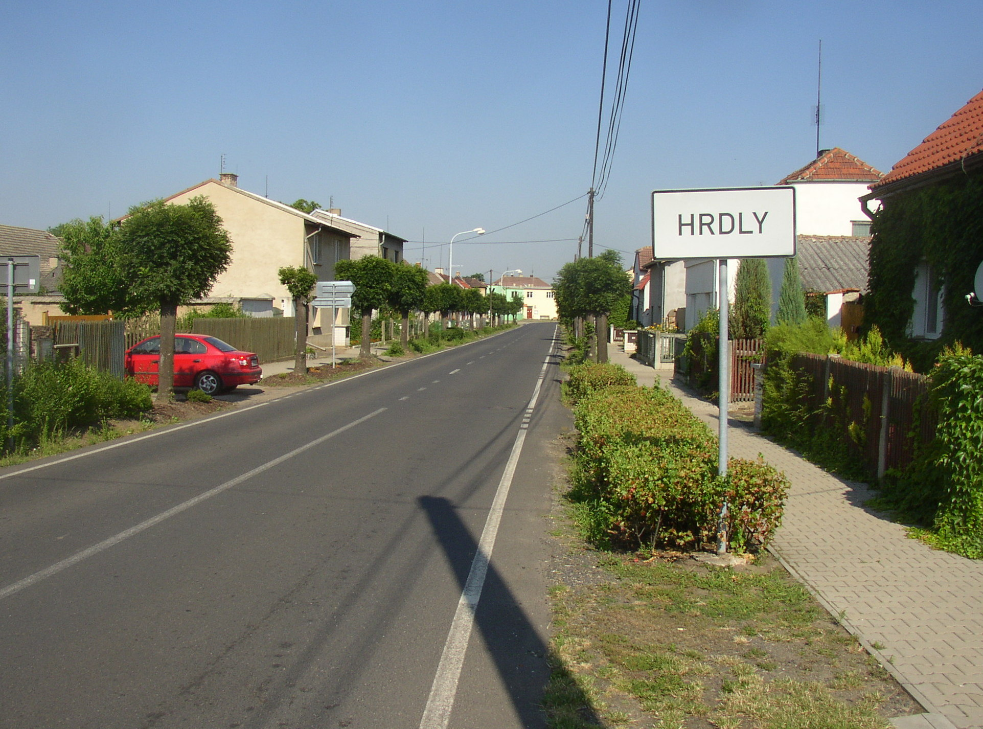 Hrdly, Litoměřice District. A view from vicinity of Dolánky/Oleško crossroads along the main street in WNW direction towards centre of the village.